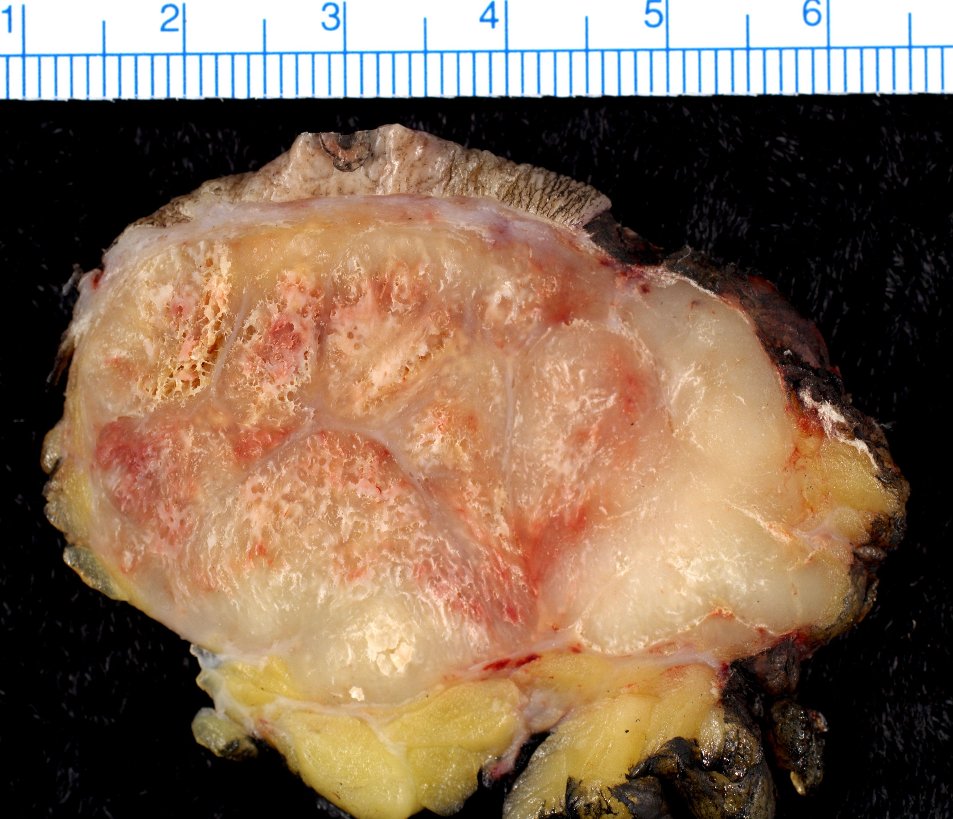 This large tumor presented as a protuberant mass on the buttock of a 45-year-old woman. Microscopically it showed sheets of undifferentiated cells with high nuclear/cytoplasmic ratio, a high mitotic rate, a occasional inconspicuous nucleoli. Immunostains showed strong dot-like and diffuse cytoplasmic positivity for cytokeratins 20, CAM5.2, and AE1-AE3, as well as granular staining for synaptophysin and chromogranin. There were negative reactions for cytokeratin 7, gross cystic disease fluid protein 15, melan-A, S-100 protein, and thyroid transcription factor 1-alpha. Even though the histologic features and immunostain profile was characteristic of a primary skin tumor, the presentation is atypical. Usually, Merkel cell carcinoma presents on the sun-exposed areas of elderly individuals. Therefore, the pathologist recommended workup for the possibility of another primary site, including lung, female genital tract, salivary gland, and other cutaneous site.